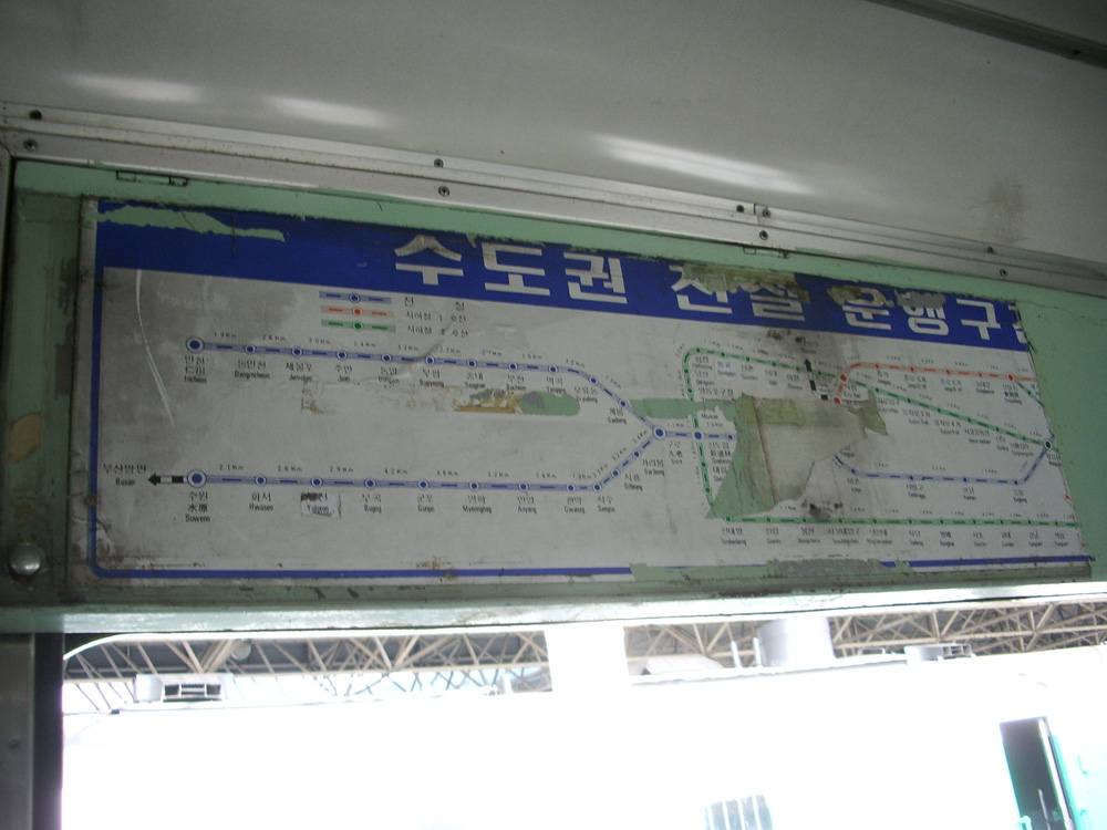 Here is most of the Seoul Subway map dating from the early 1980s. Blue denotes "electric rail" and refers to the Korail-managed portions of Line 1. Red is Seoul Subway Line 1, the underground portion in downtown Seoul run by Seoul Metro. In reality, the two were run as a continuous line with through trains from both Korail and Seoul Metro, and today both sections are collectively known as Line 1 with the line color of dark blue. Green is Seoul Subway Line 2, which would be completed as a circle line in 1984. Romanization on this map uses the very awkward Ministry of Education System, which was phased out in 1984 in favor of the internationally accepted McCune-Reischauer System in preparation for the 1988 Summer Olympics. McCune-Reischauer itself was discontinued in 2000 in favor of another new system, Revised Romanization, though McCune-Reischauer continues to be the preferred romanization system of non-Korean speakers, the international community, and the US government.